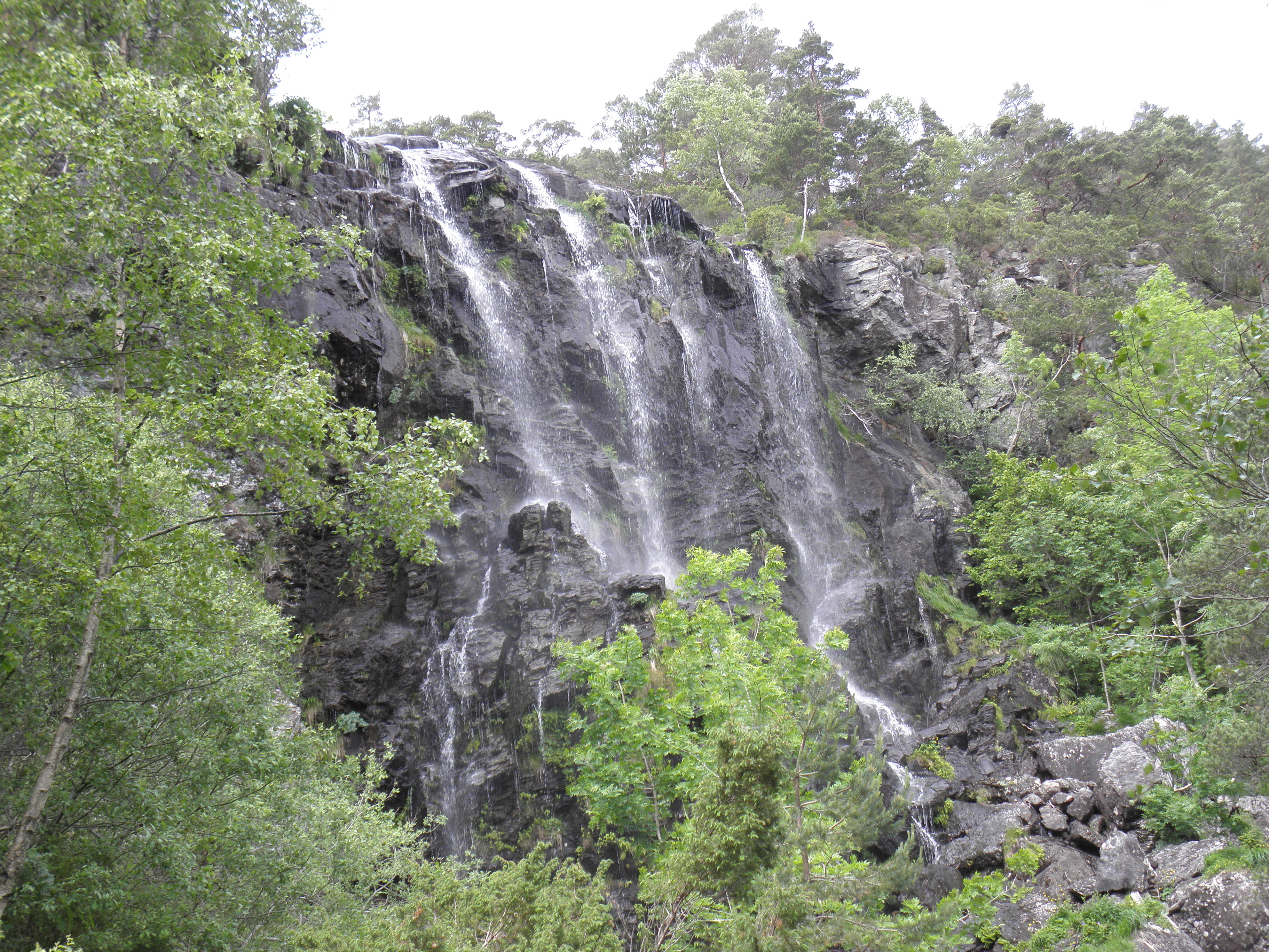 A photo of Vasstølsfossen, Tysnesøy, Tysnes, Hordaland, Norway.